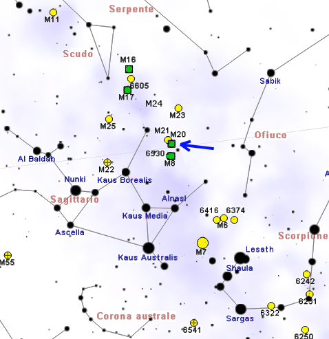 M20